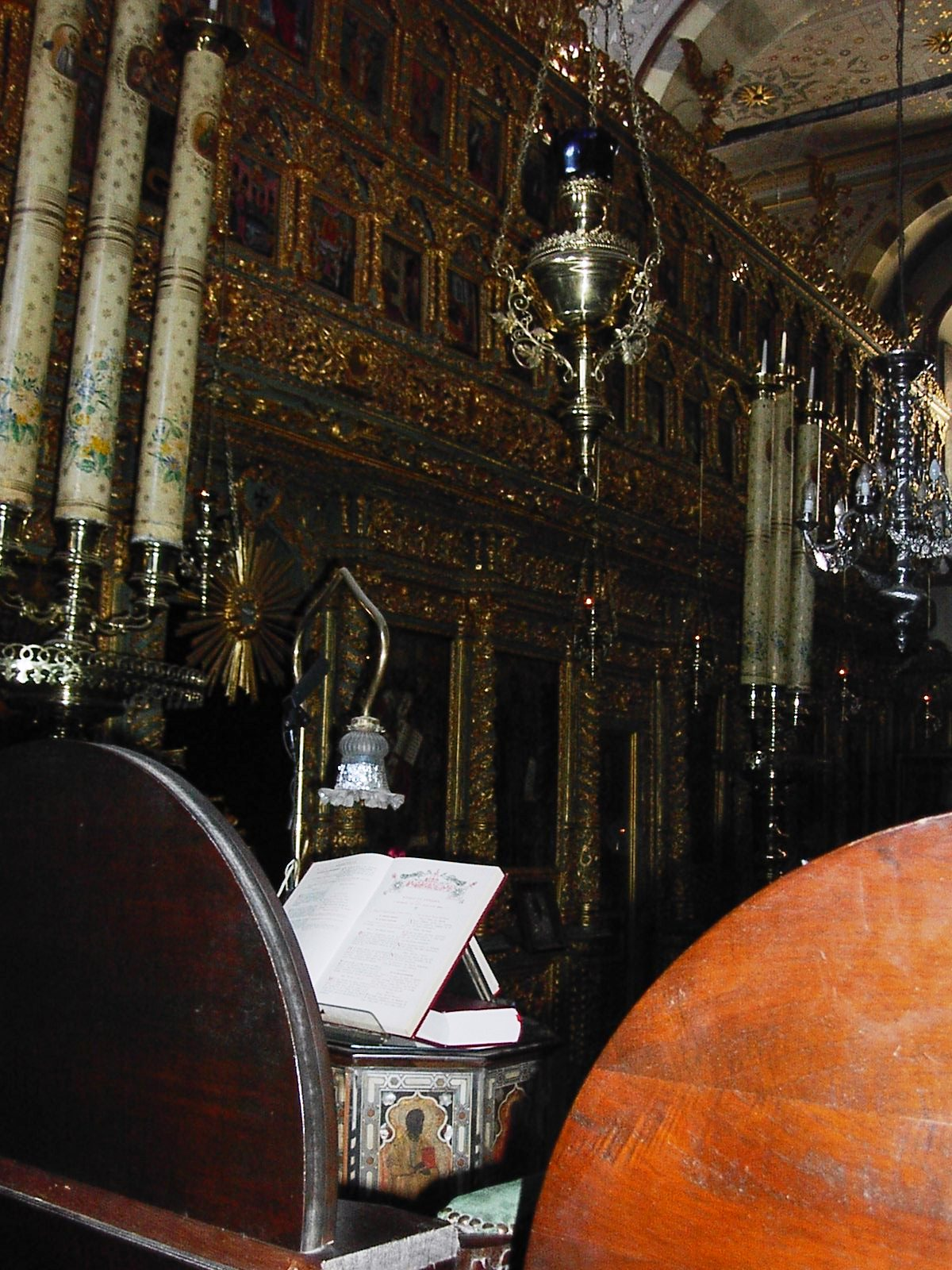 Church of St George, Istanbul